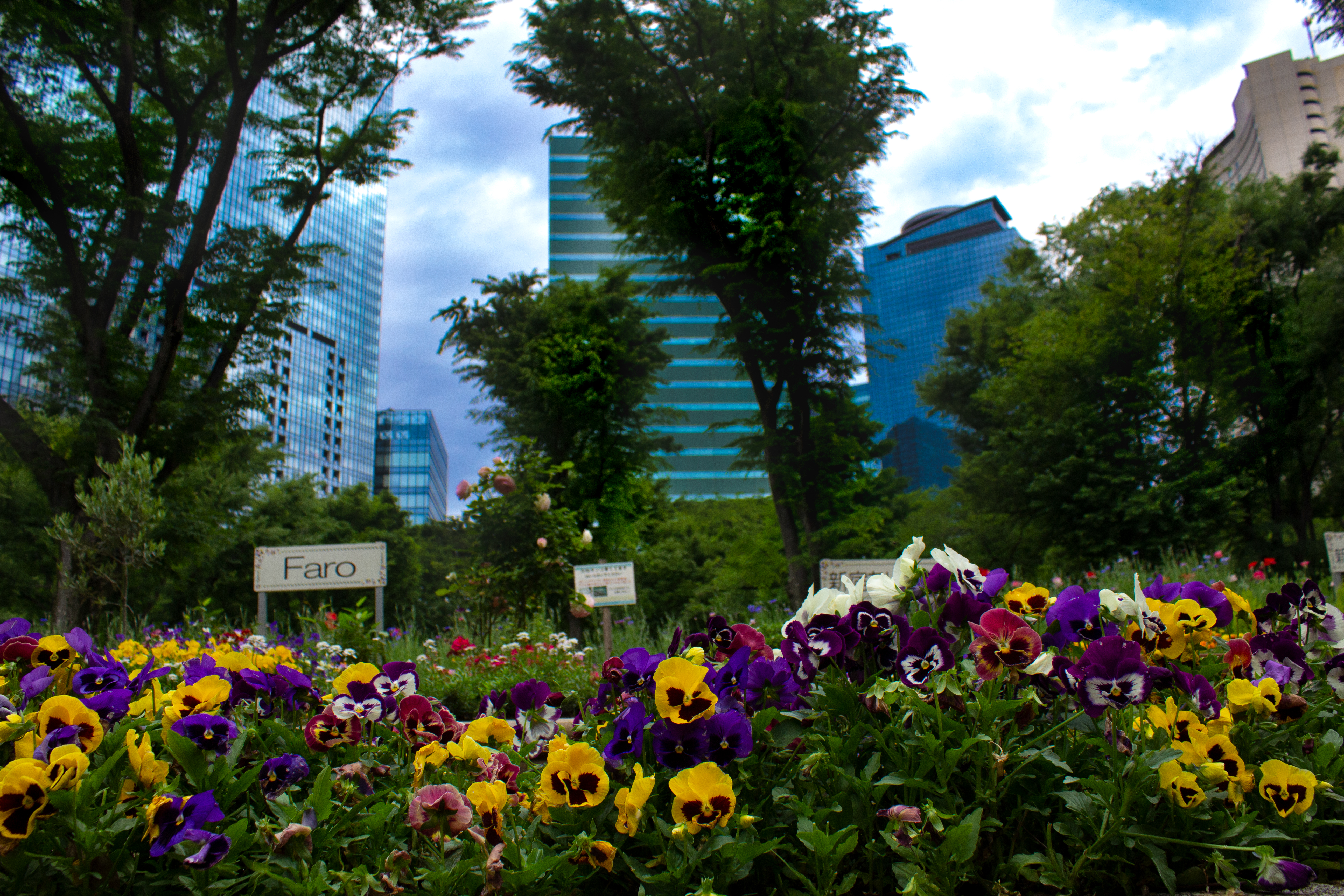 A flower bed in Shinjuku Central Park.